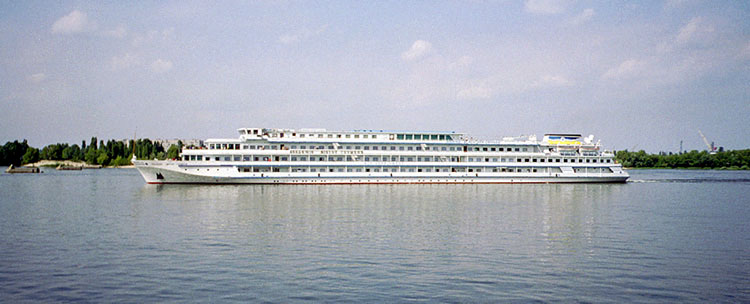 Akademik Viktor Glushkov in Kremenchug - Akademik Glushkov - Igor Stravinskiy 1983